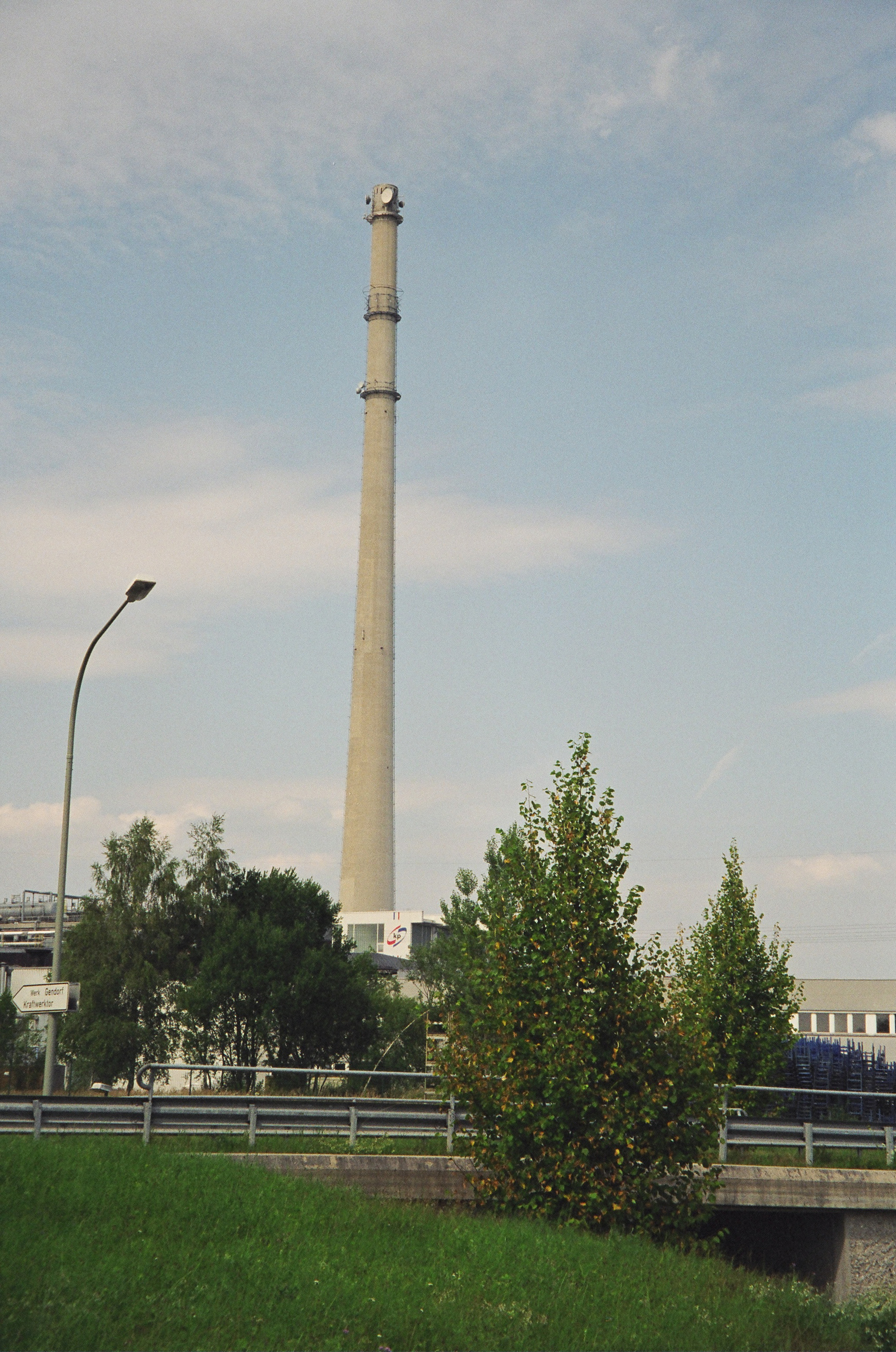 Industrial complex tower of Gendorf and Radio tower of "Radio ISW", Burgkirchen an der Alz in Germany